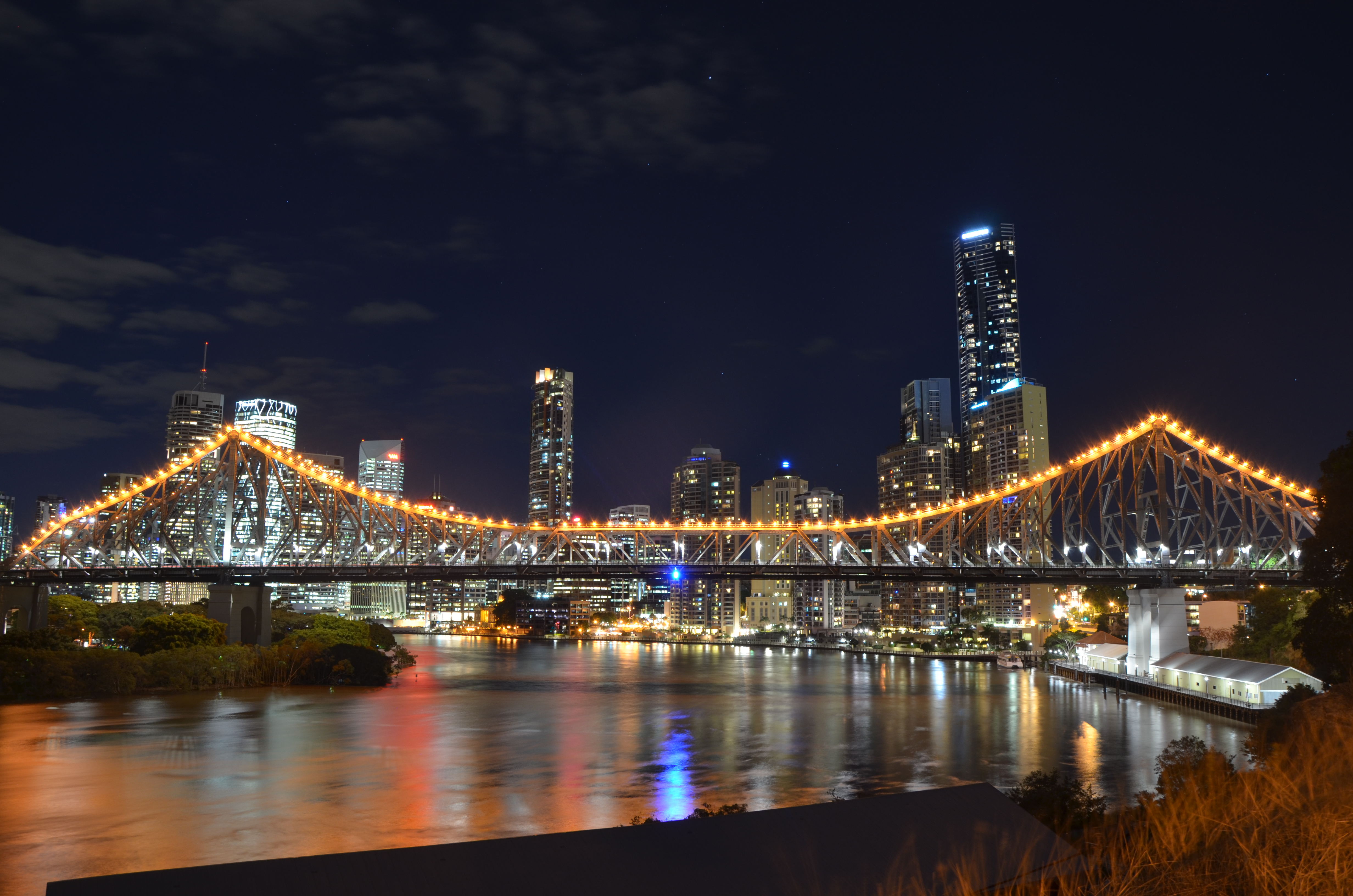 View of the Brisbane CBD and Storey Bridge from New Farm.